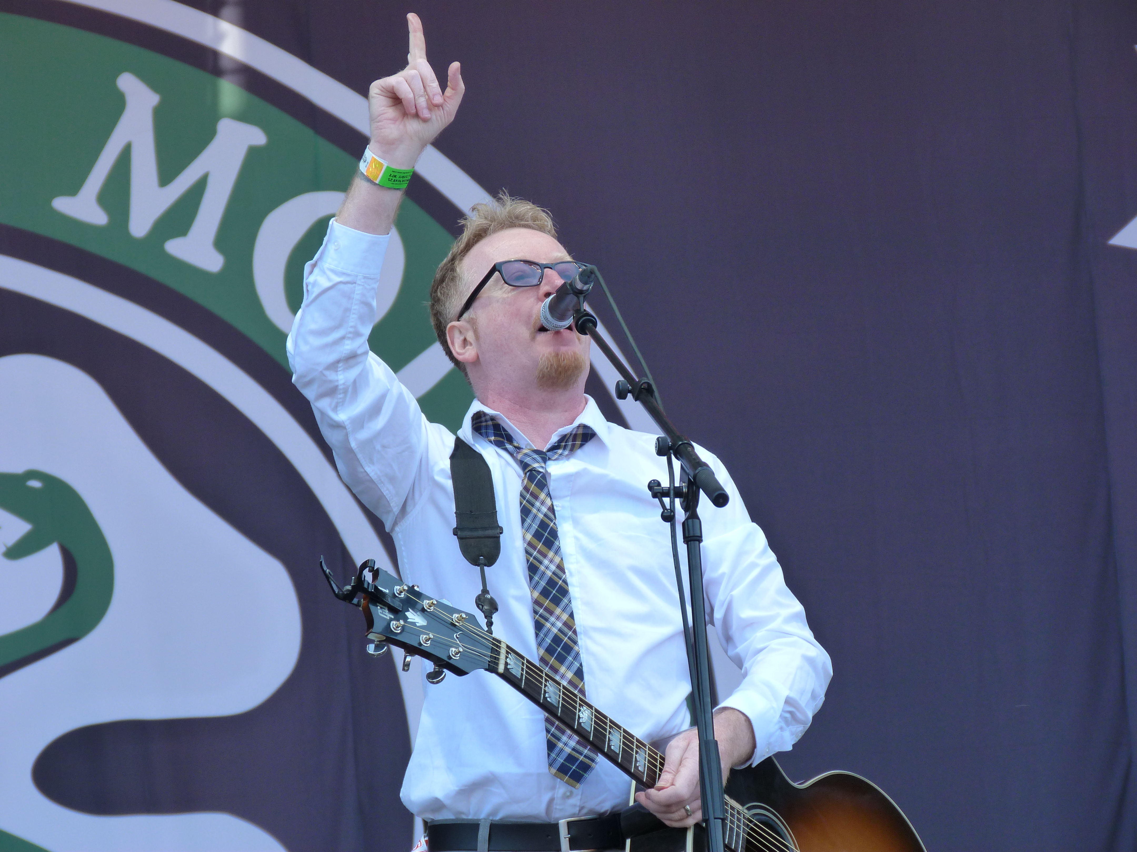 Dave King. Flogging Molly was playing at Sziget Festival in Budapest, on the 10th of August, 2011. Dave King: Vocals, Acoustic Guitar, Electric Guitar, Bodhran Dennis Casey: Electric Guitar, Acoustic Guitar, Vocals Matthew Hensley: Accordion, Concertina, Piano, Vocals Nathen Maxwell: Bass Guitar, Vocals Bridget Regan: Violin, Tin Whistle, Classical Guitar, Uilleann Pipes, Vocals Robert Schmidt: Mandolin, Mandola, Tenor Banjo, Five String Banjo, Vocals George Schwindt: Drums, Percussion. We have freedom, what else do we need ? Dave King said, addressing the audience. “THE LIGHTS HAVE GONE OUT ON THE WORKING CLASS Three years ago, hard working men and women the world over were collectively under the assumption that their nest eggs were secure, their homes were the safest of all investments, and that the economy was on the upswing. Then, with virtually no warning, their lives were turned upside down, as an entire generation saw their dreams dashed and plans dismantled”. . Published under Creative Commons in the Metapolisz DVD line.